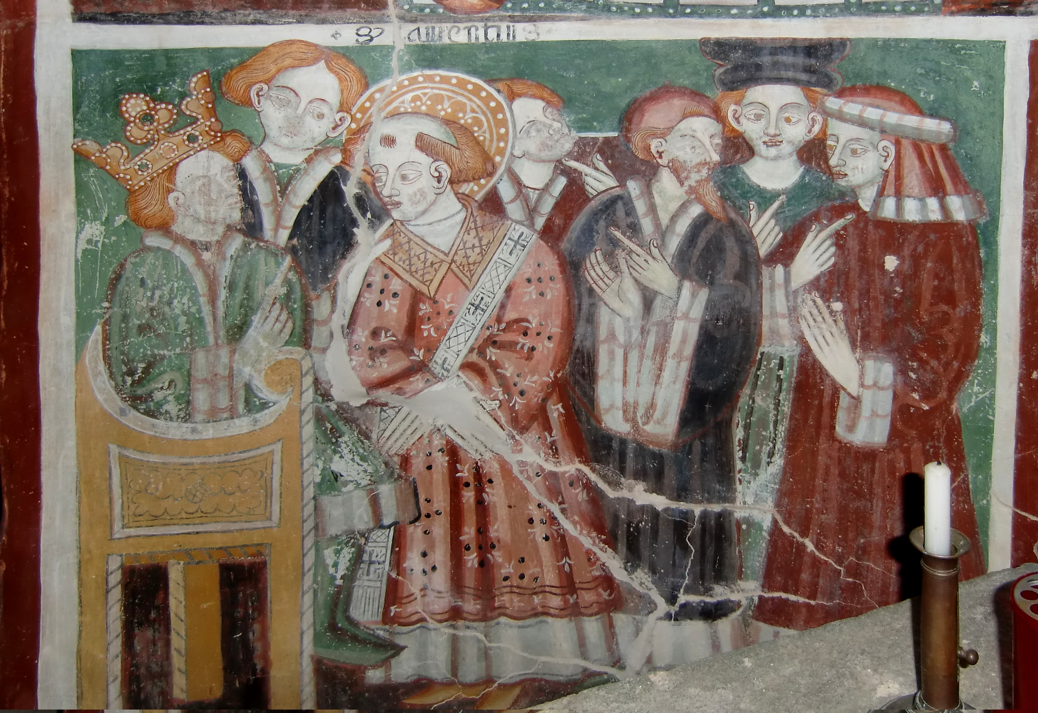 Unknown painter of XV century, The Emperor Valerian orders Lawrence to give him the treasure of the Church, 1450 ca, Oratorio di San Lorenzo all'Alpe Seccio, Boccioleto (Italy)